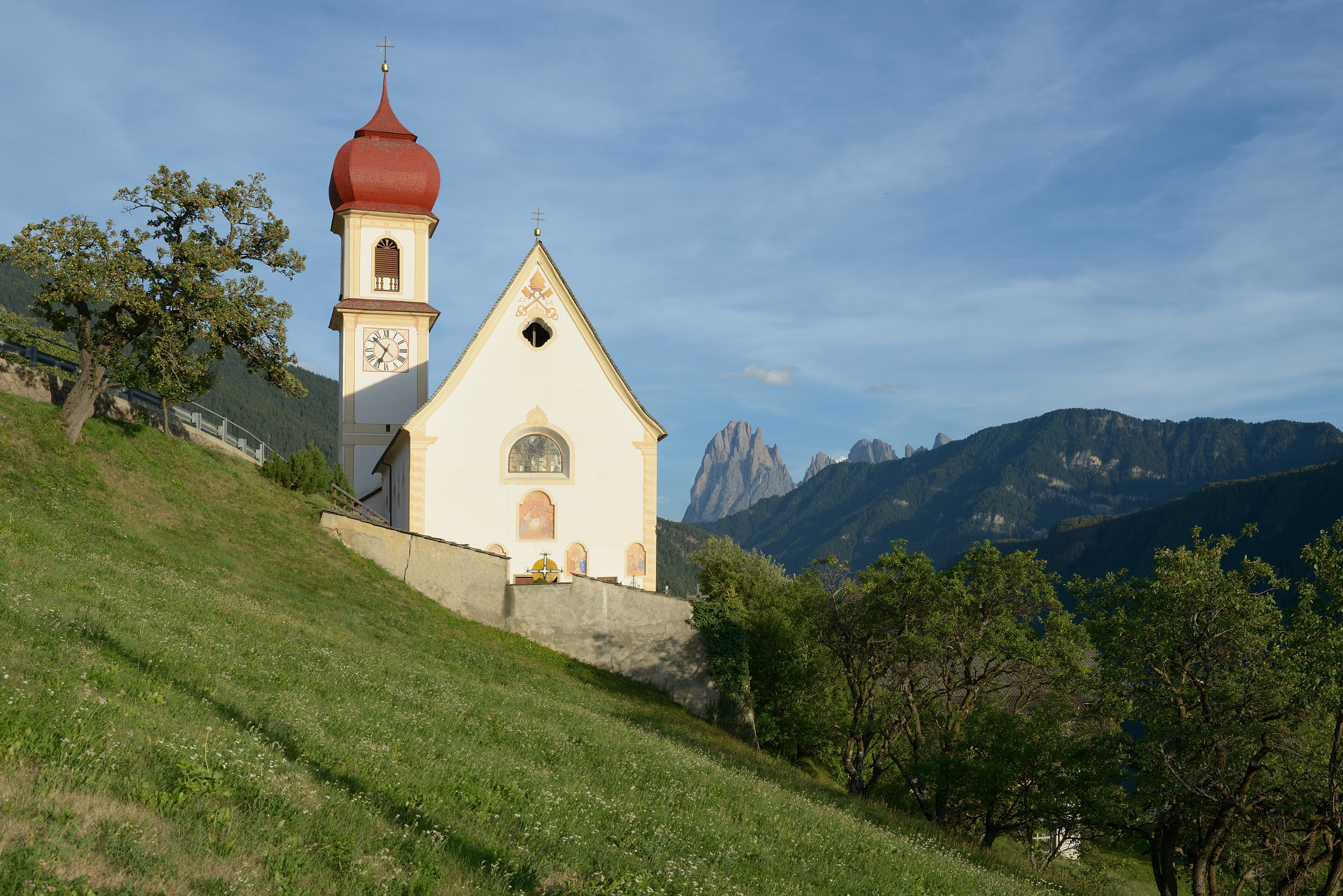 Parish church St. Peter bei Lajen (South Tyrol)